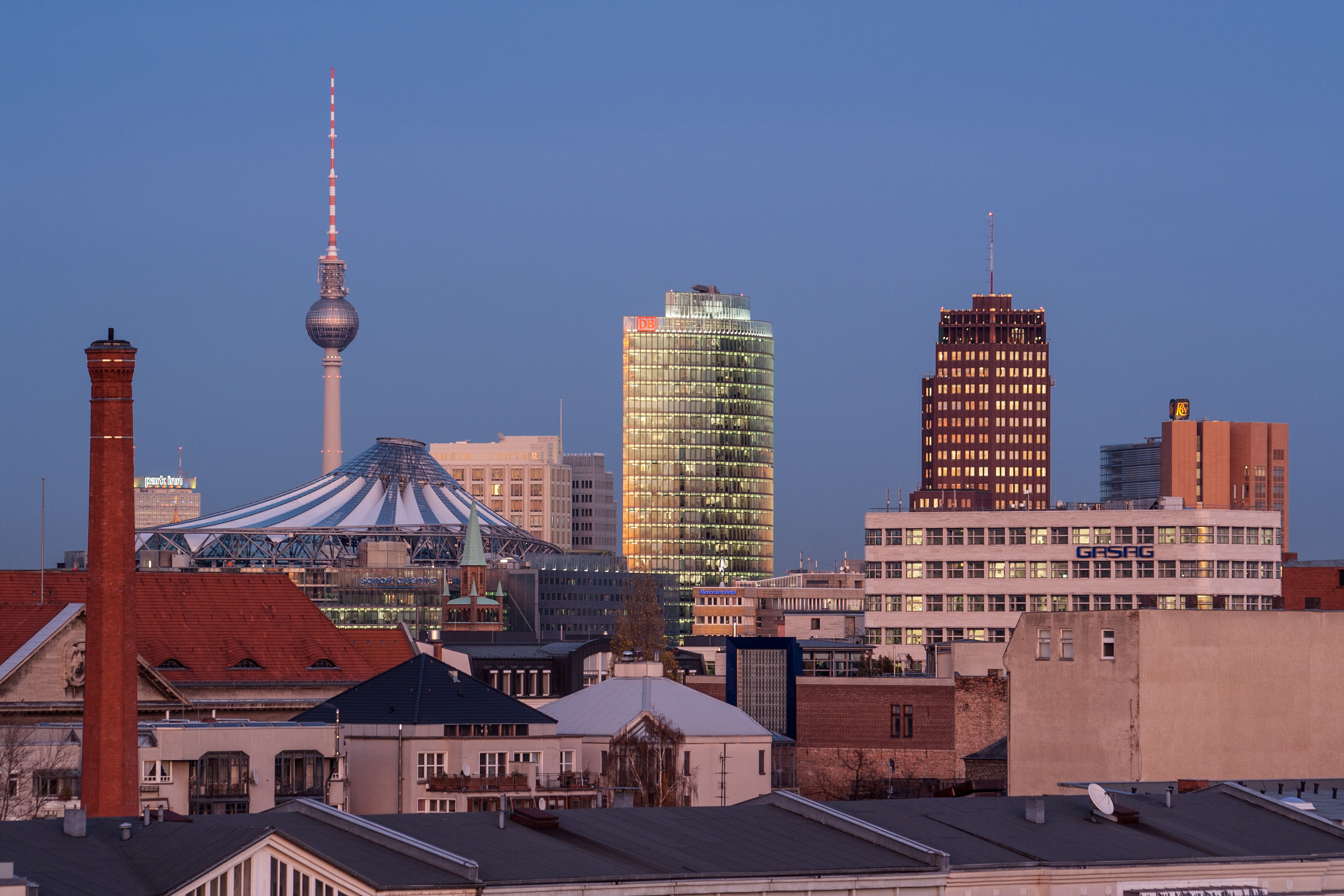 Blue hour: potsdamer place with television tower in berlin.